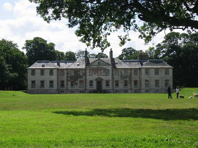 Newhailes. 17th Century house and estate that dominates the square and also provides a recreational resource. Managed by the NTS in a way that keeps it a little tatty, just as it was for nearly all its life. This looks like a big country house from the era of big country houses, not tidied to modern tastes and standards.